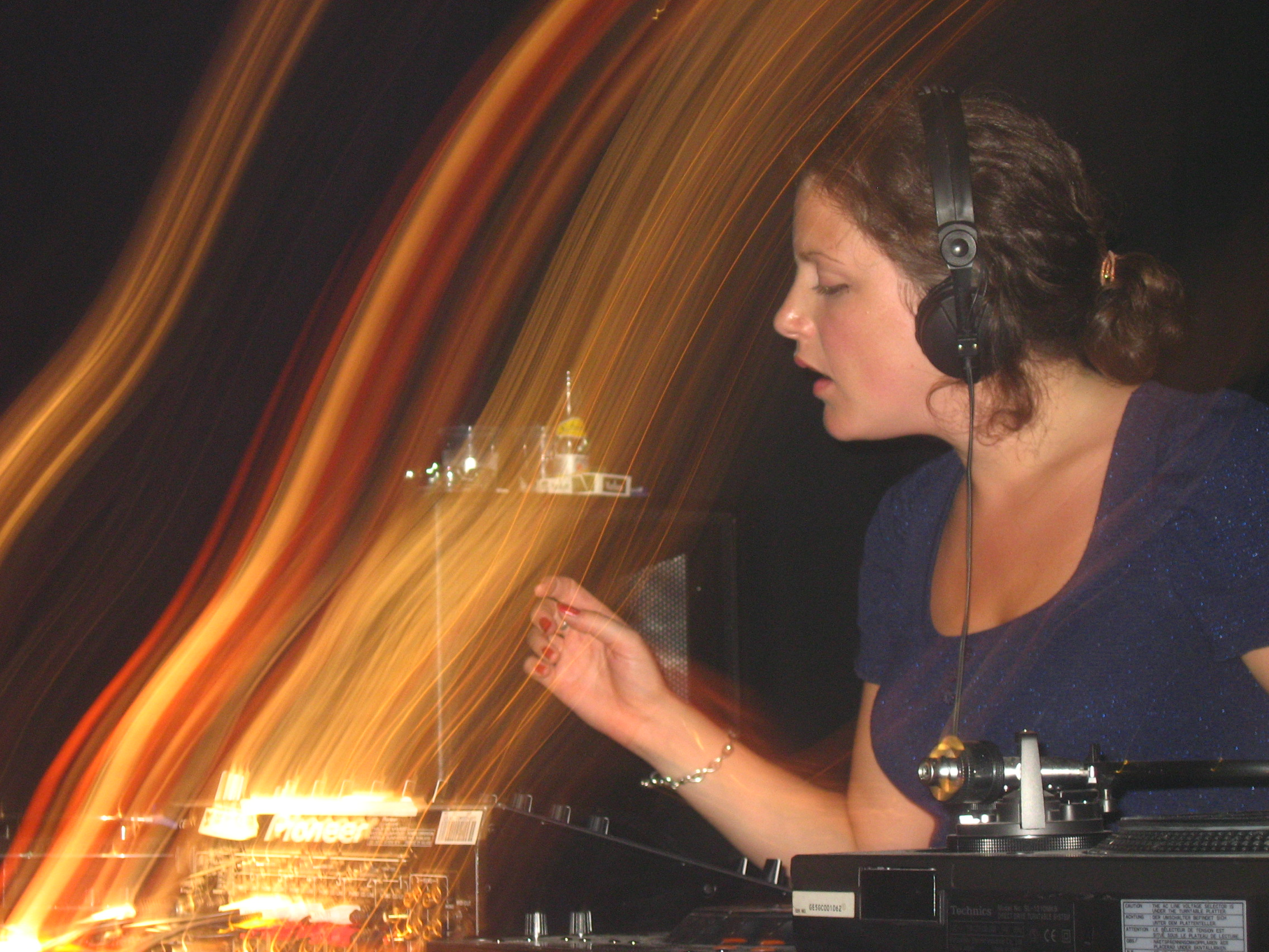 I took this picture while Annie Mac was DJ'ing in Brighton. I am uploading this because the current picture used is low resolution.